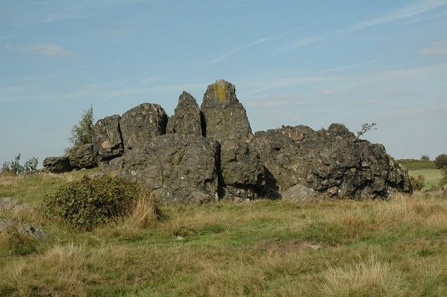 The "Bomb Rocks", Charnwood Lodge Nature Reserve. An important Pre-Cambrian rock outcrop